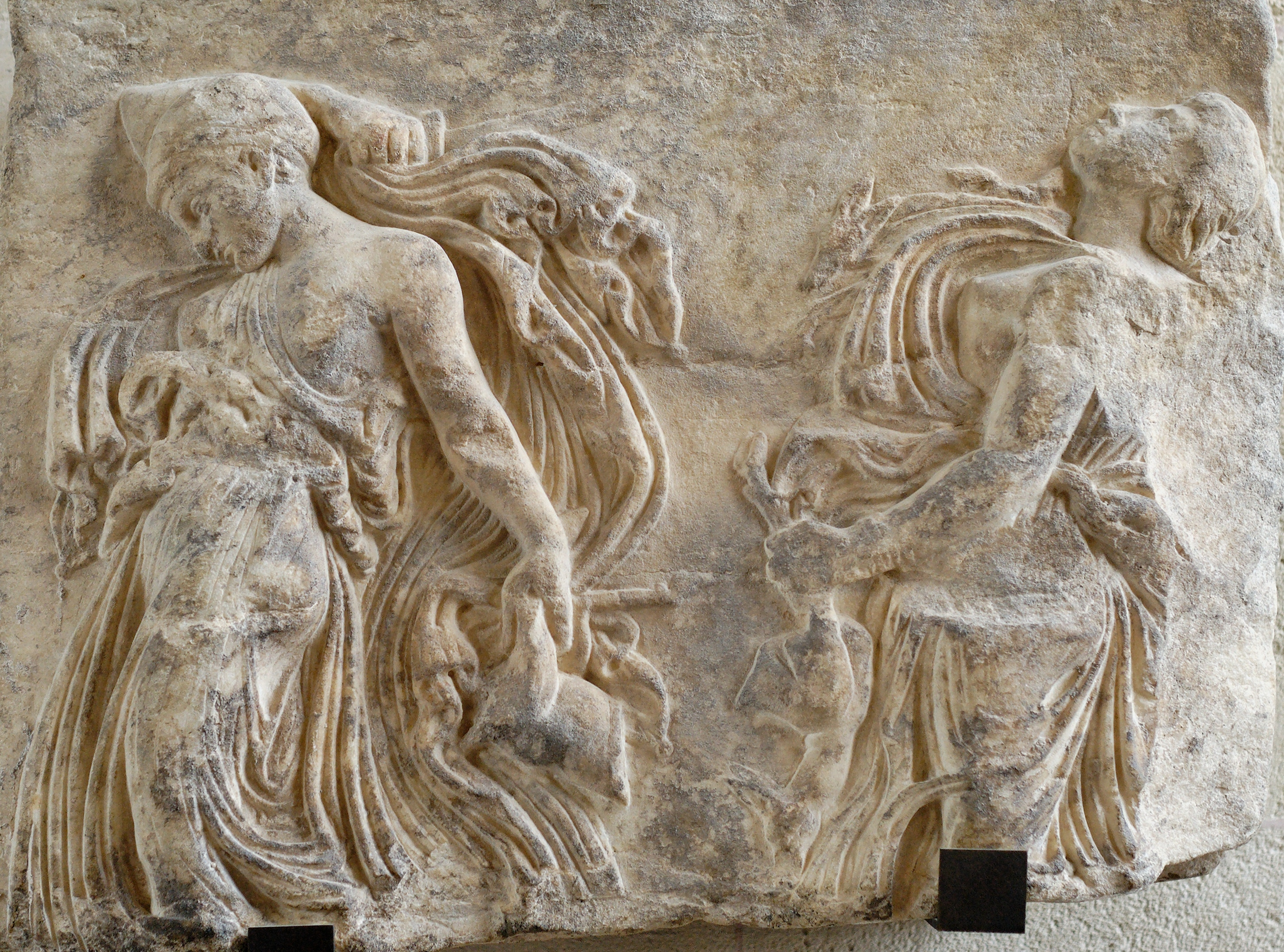 Dancing maenads, fragment of a relief. Marble, Roman copy after a neo-attic model, 1st century CE.